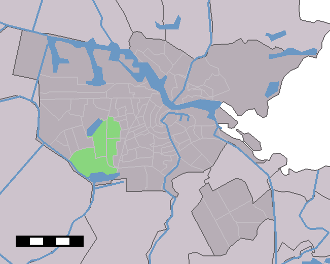 Location of neighbourhoods/districts in Amsterdam